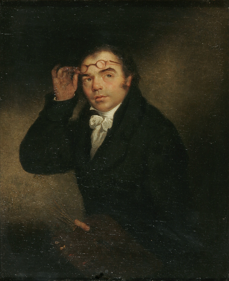 Portrait of John Crome (1768-1821) (painting)